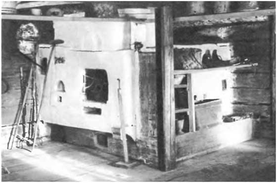 Russian oven